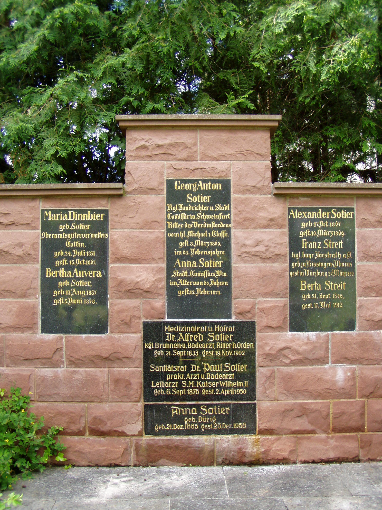 Tombstone of Dr. Paul Sotier (1876-1950), Bad Kissingen